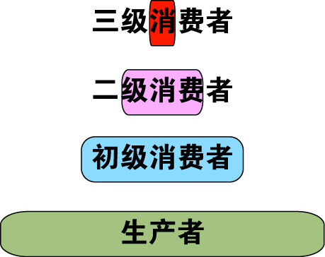 Ecological Pyramid (Chinese version)